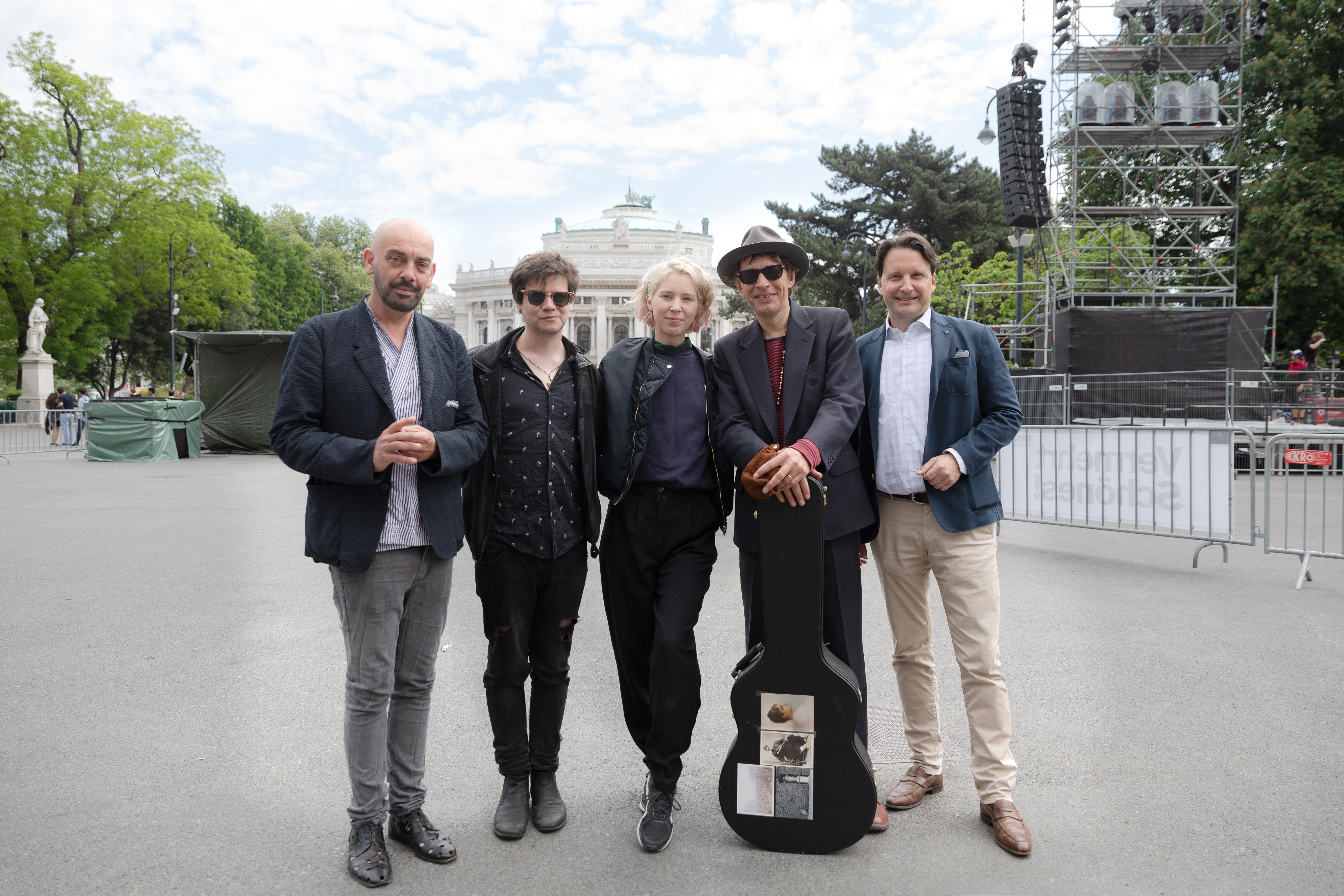 l.t.r.: Tomas Zierhofer-Kin, Der Nino aus Wien, Mira Lu Kovacs, Ernst Molden and Martin Traxl at a press conference for the Vienna Festival 2018 (Rathausplatz, Vienna, Austria).